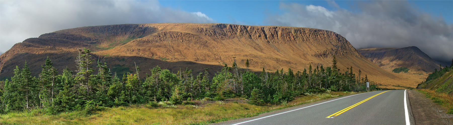 Gros Morne National Park, Western Newfoundland, Canada. The Tablelands seen from Route 431.